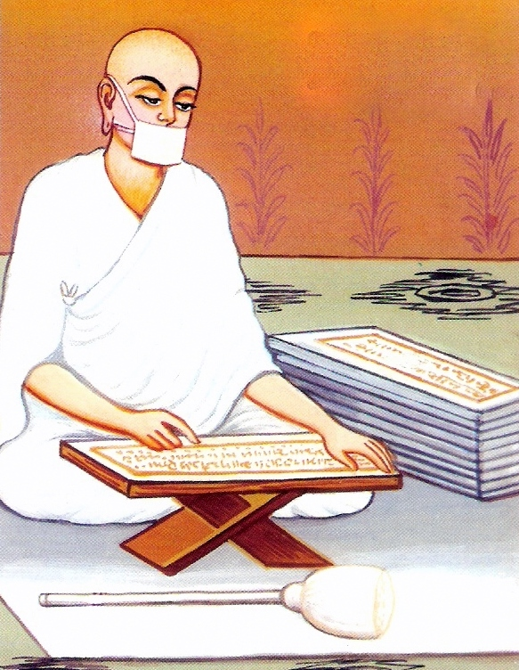 Jain Sthanakvasi monk in Meditation